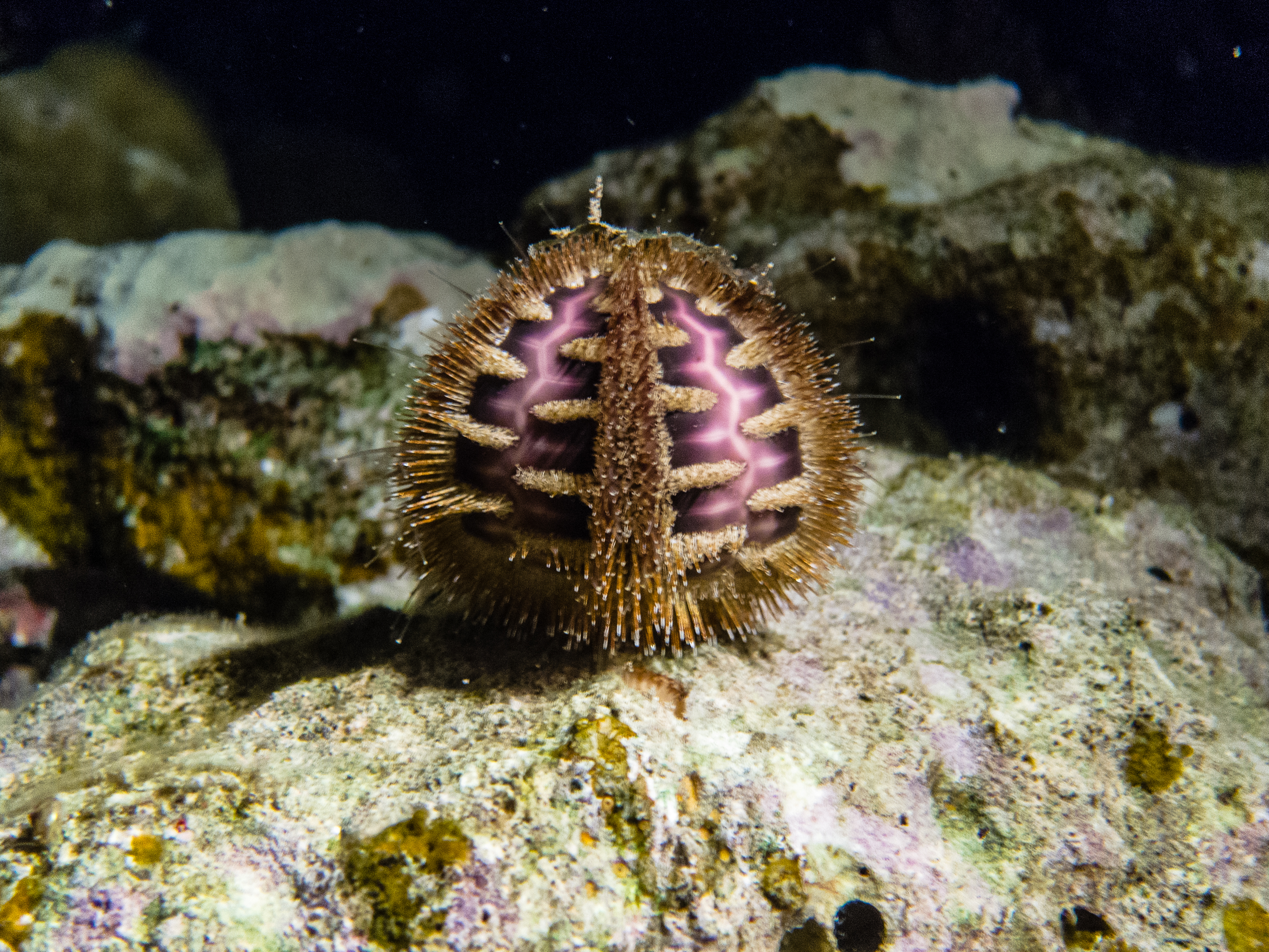 Bald-patch urchin at Dahab, Egypt.